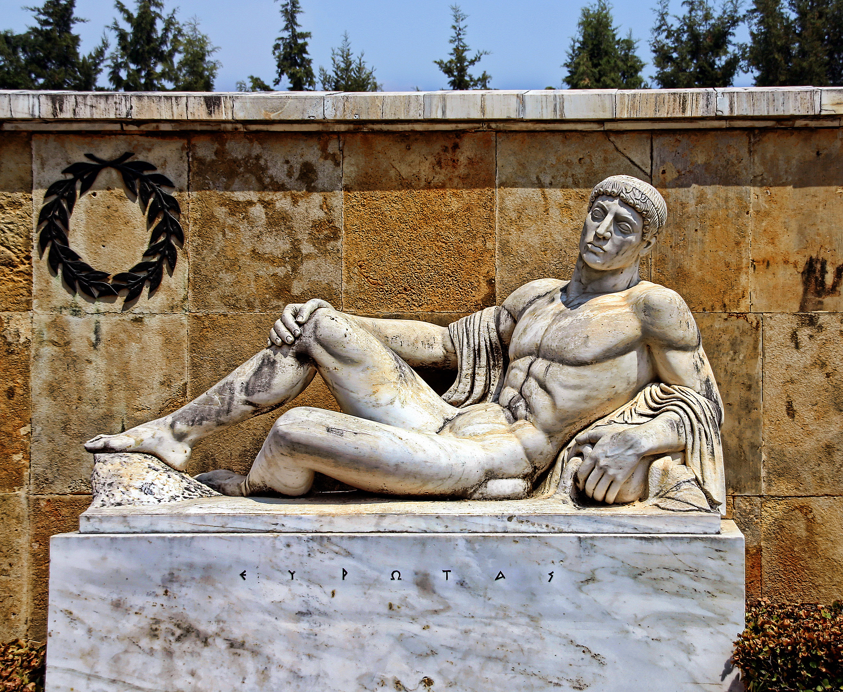 Statue of king Eurotas